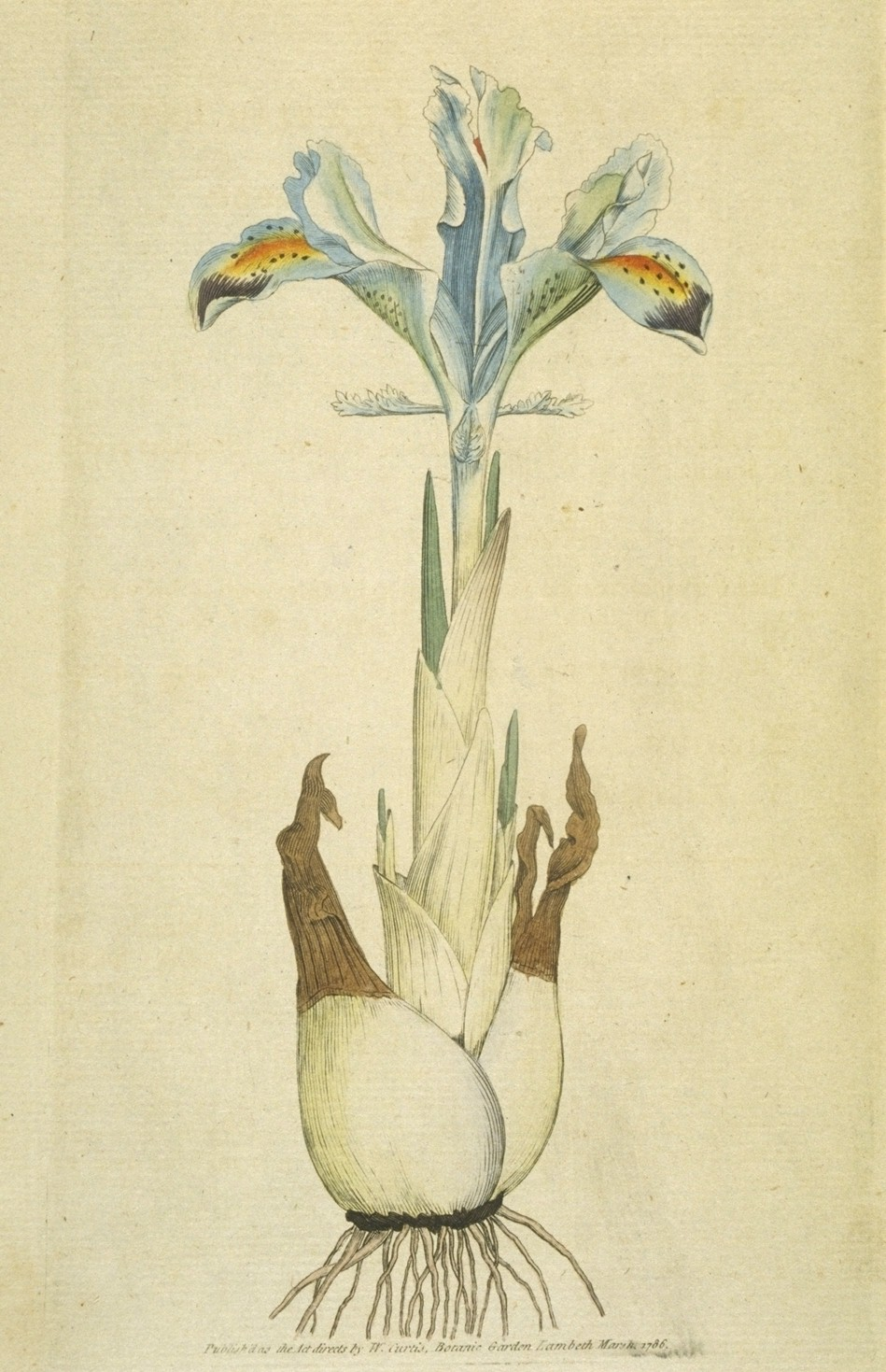 Reproduction of an image that appeared in The Botanical Magazine vol. 1. no. 1 (1792). It depicts Iris persica by James Sowerby.